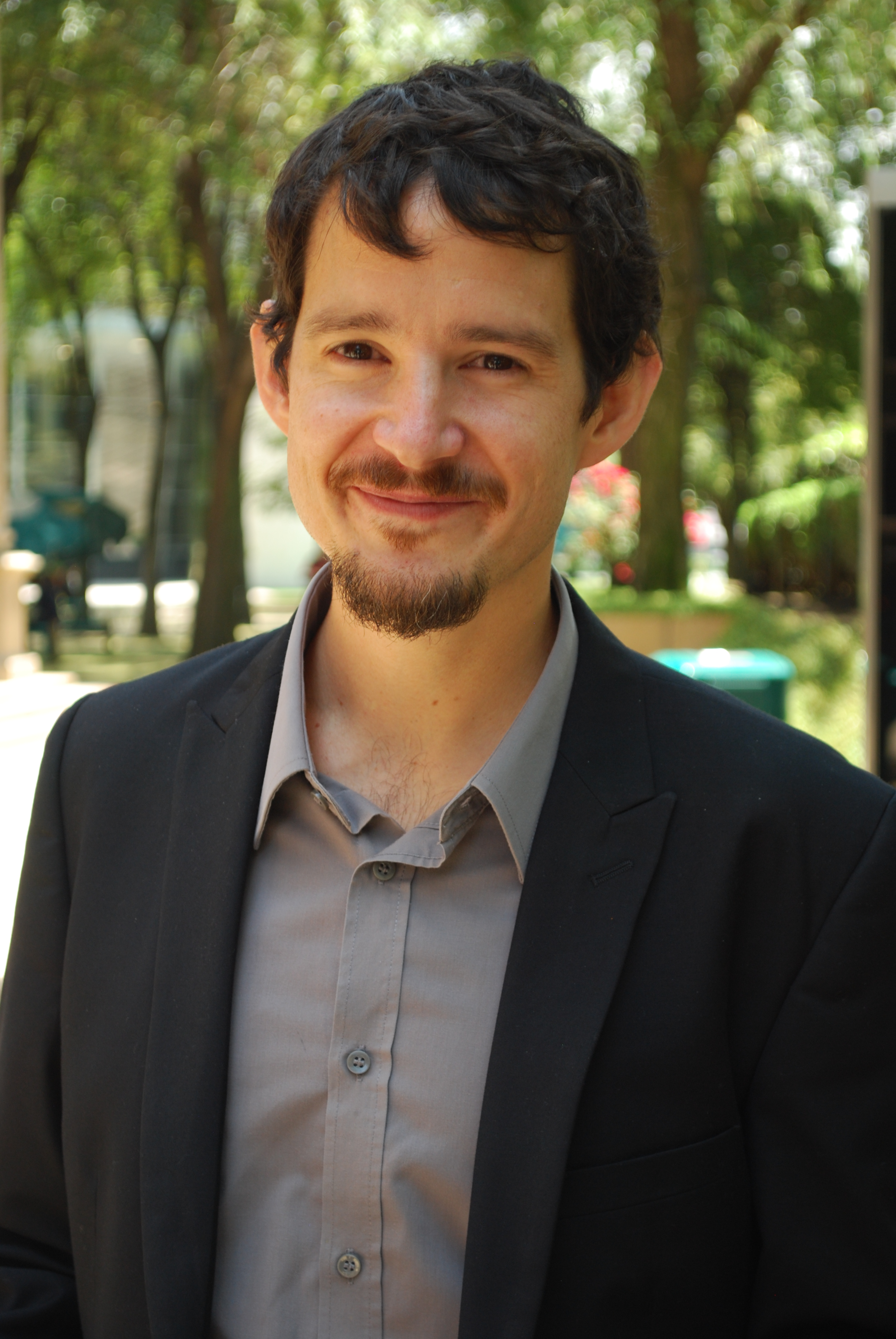 Cristóbal Cobo at the Reunion Nacional de Grupos Colegiados CCM Grupo 6 at Tec de Monterrey, Mexico City Campus